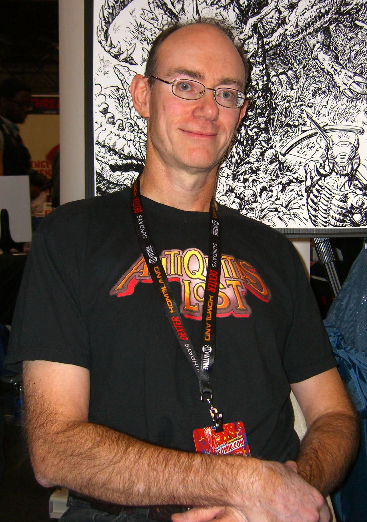 Comics creator Geof Isherwood during an October 16, 2011 appearance at the New York Comic Con in Manhattan. This photo was created by Luigi Novi. It is not in the public domain, and use of this file outside of the licensing terms is a copyright violation.